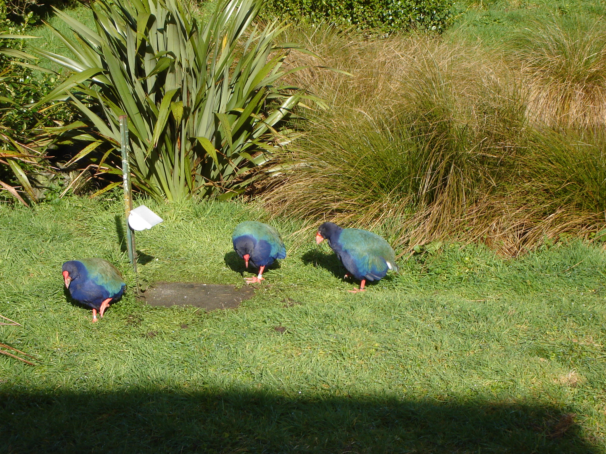 The three Takahe of Mt Bruce Wildlife Center, New Zealand